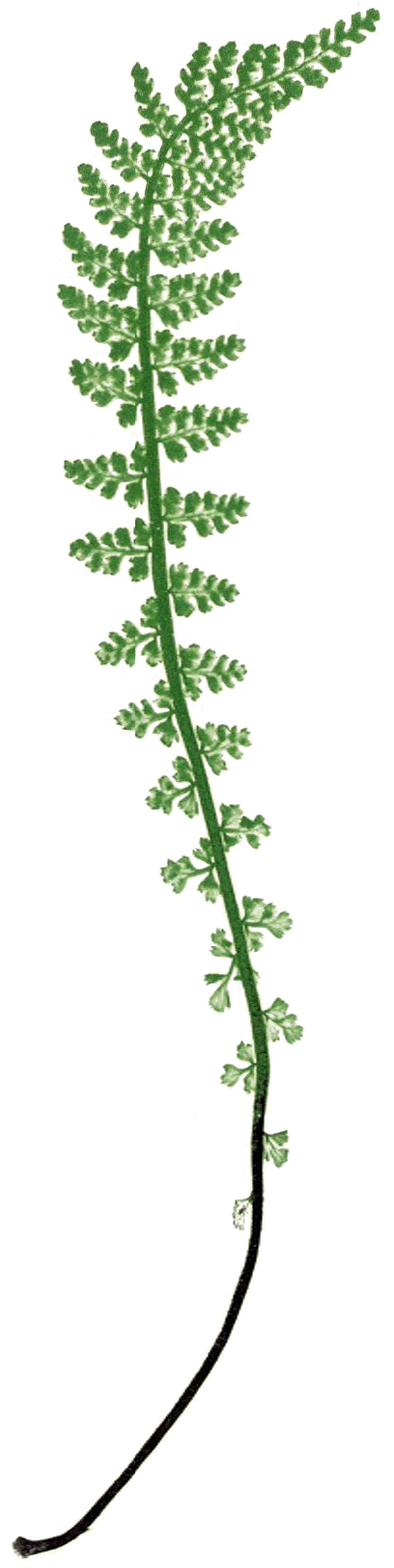 Plate 35, Fig. A3, Asplenium fontanum from The Ferns of Great Britain and Ireland (Thomas Moore), 1855.